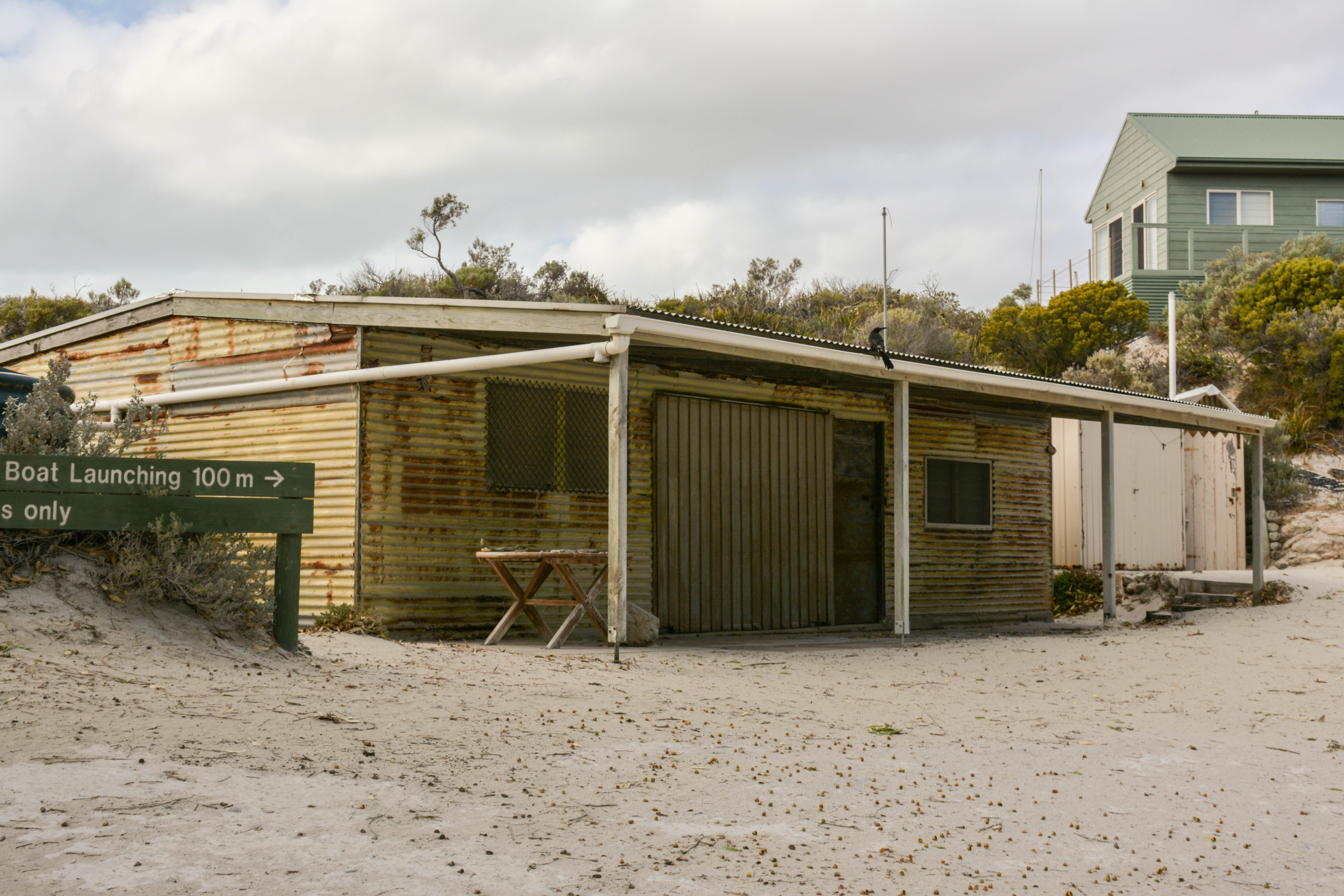 Fishing shacks at Pondalowie Bay. The bay is in the Innes National Park, Yorke Penisula, South Australia.